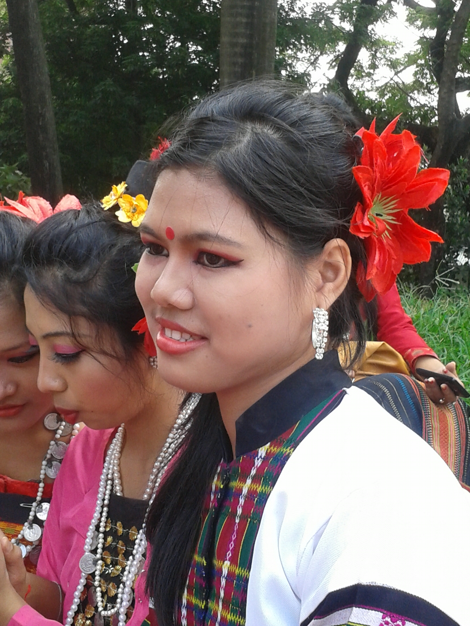 Bawm Dancer, Indigenous People's Day, 2014, Dhaka, Bangladesh